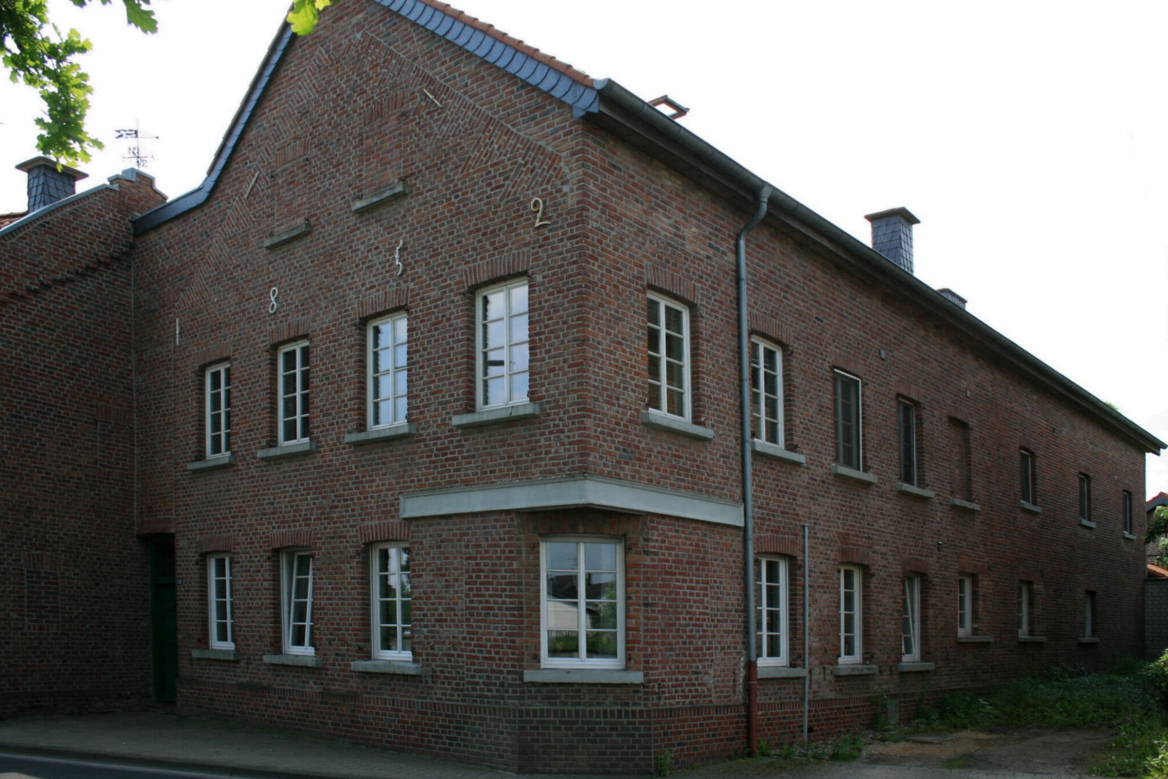 Cultural heritage monument No. Sch 042 in Mönchengladbach